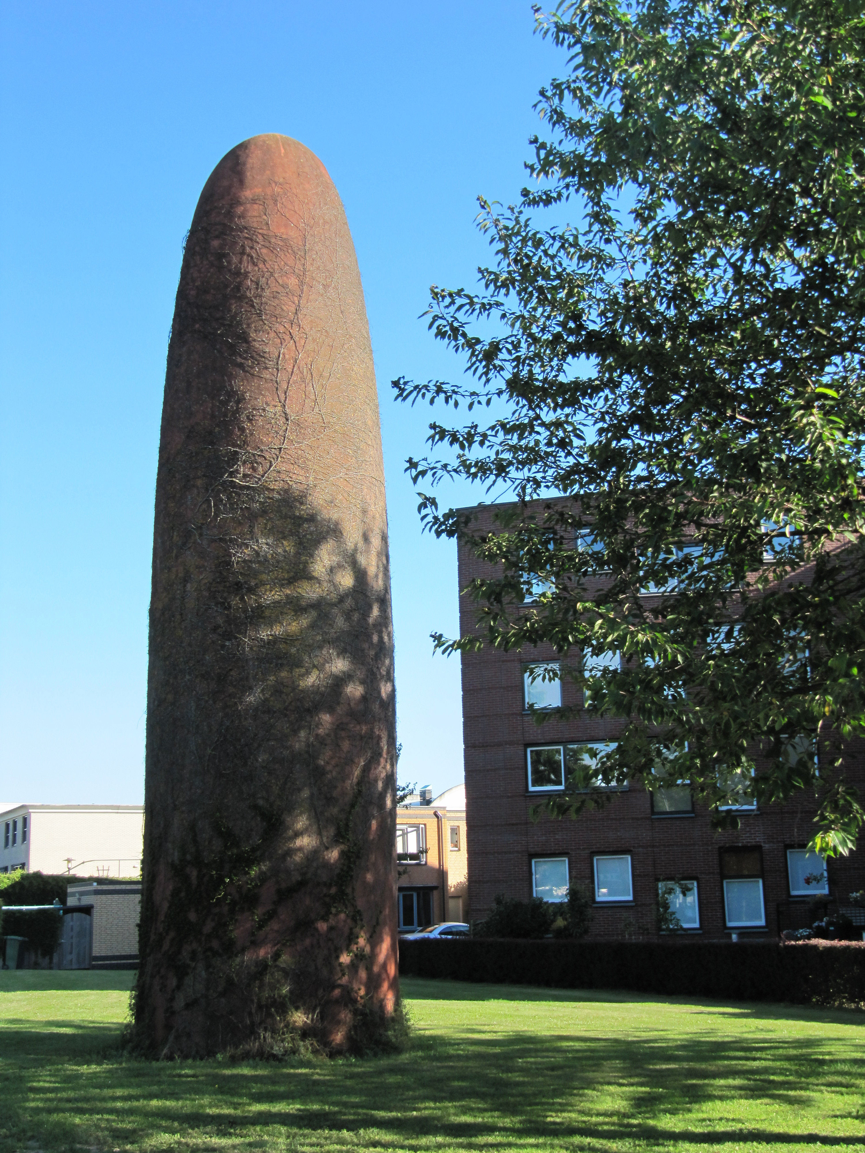 "Menhir" by Daan van Golden on the corner of Australiëring and De Mui in Amersfoort, The Netherlands